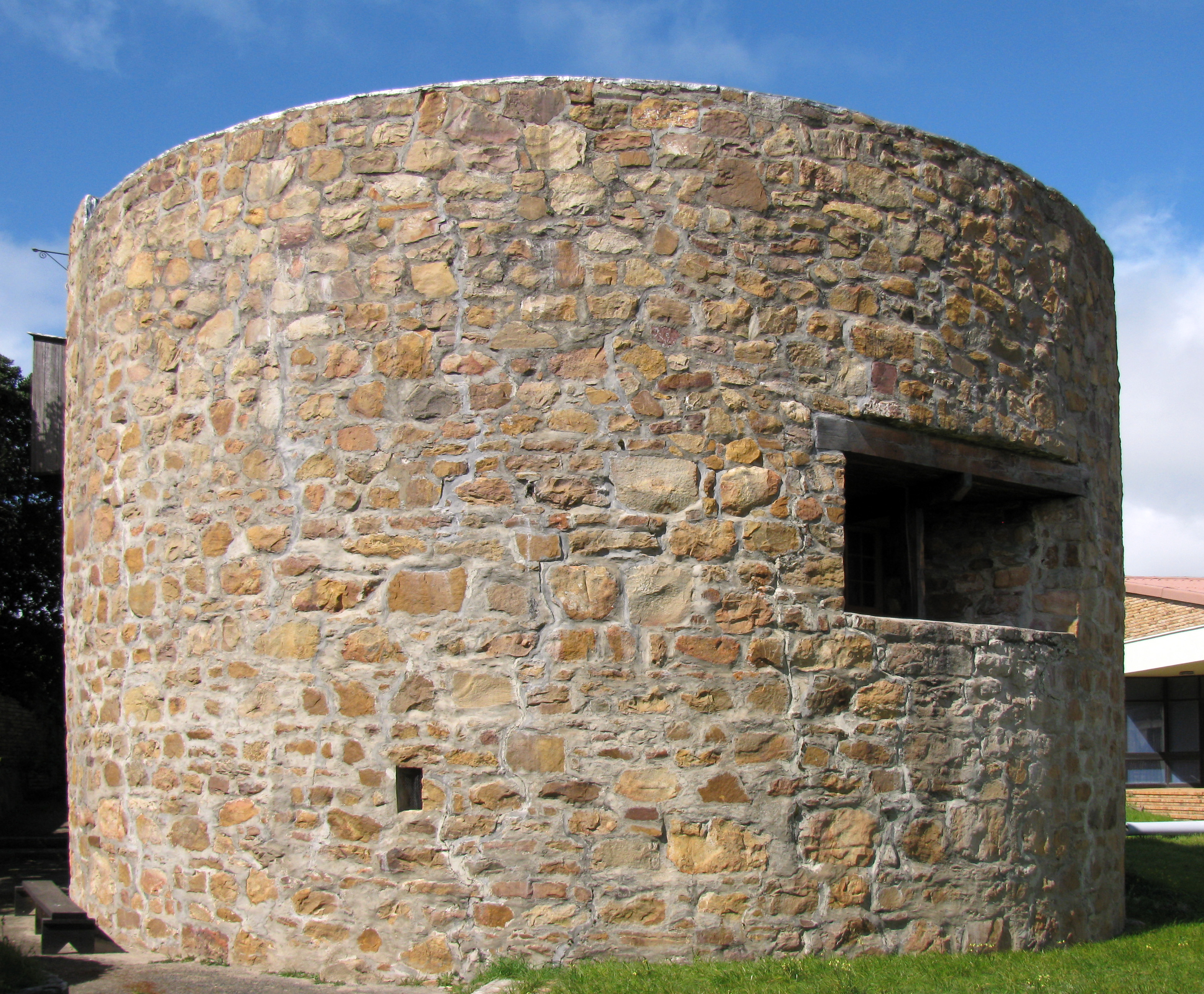 This media shows a South African Protected Site with SAHRA file reference 9/2/081/0055.